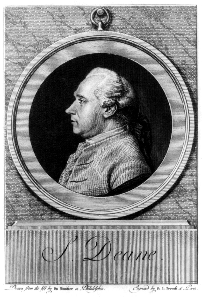 Portrait of Silas Deane. Drawn from the life by Pierre Eugene du Simitiere in Philadelphia; engraved by Benoît-Louis Prévost at Paris.